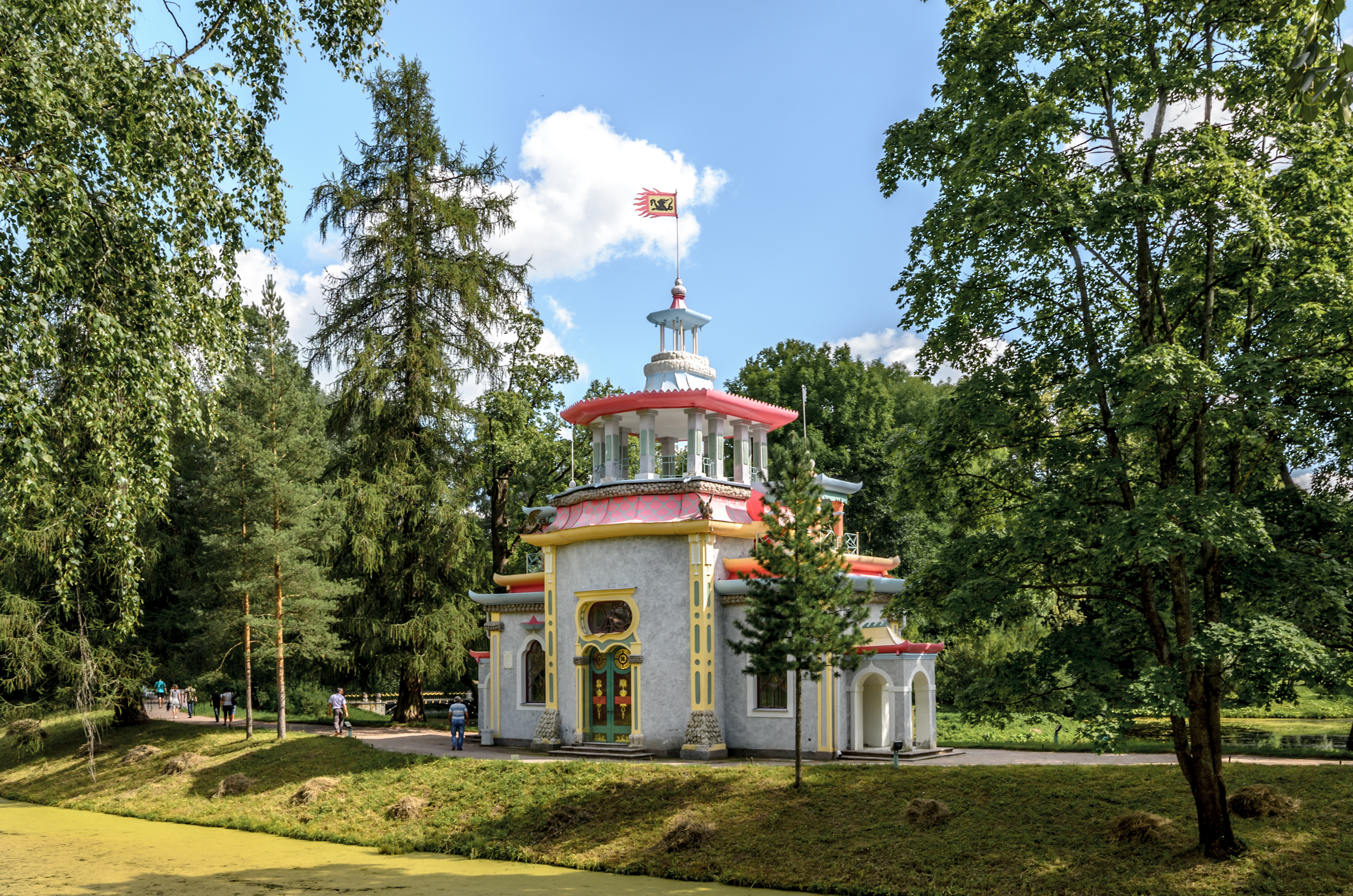 Creaking (Chinese) Pavilion in Catherine Park of Tsarskoe Selo